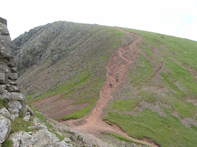 Windy Gap. Windy Gap and Green Gable taken from the flanks of Great Gable.